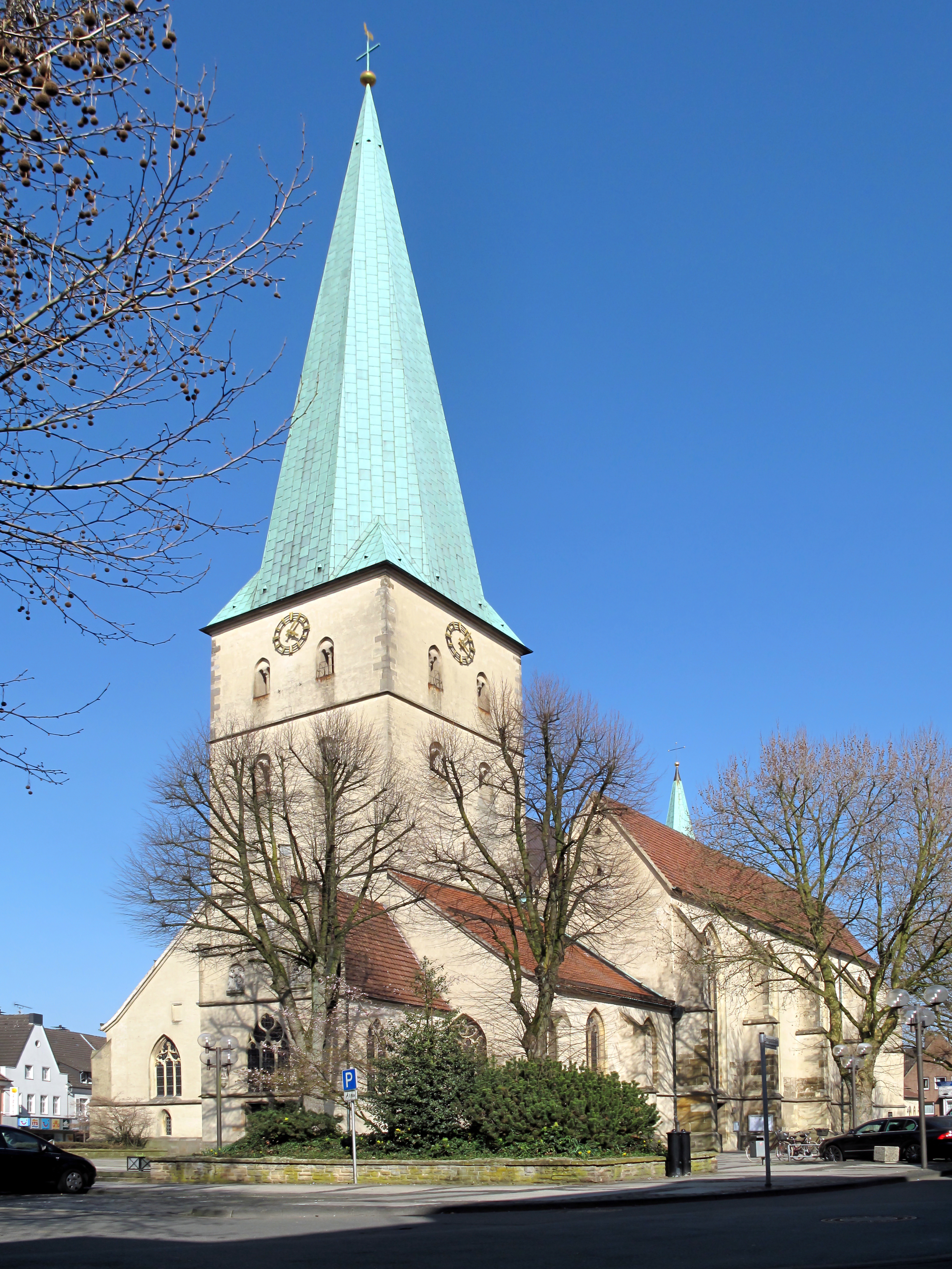 Borken, church: Propsteipfarre Sankt Remigius